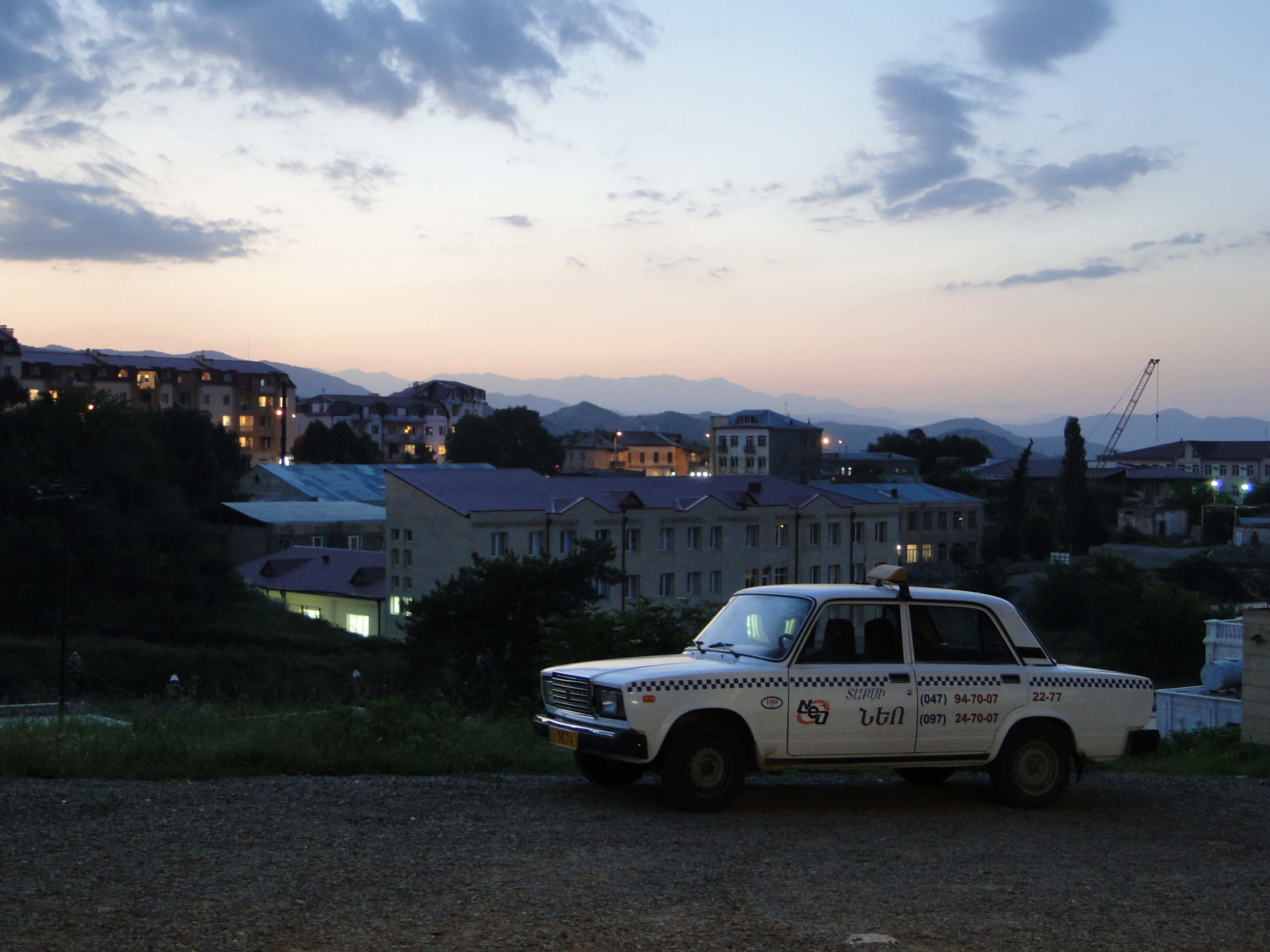 Stepanakert, Nagorno-Karabakh Republic.